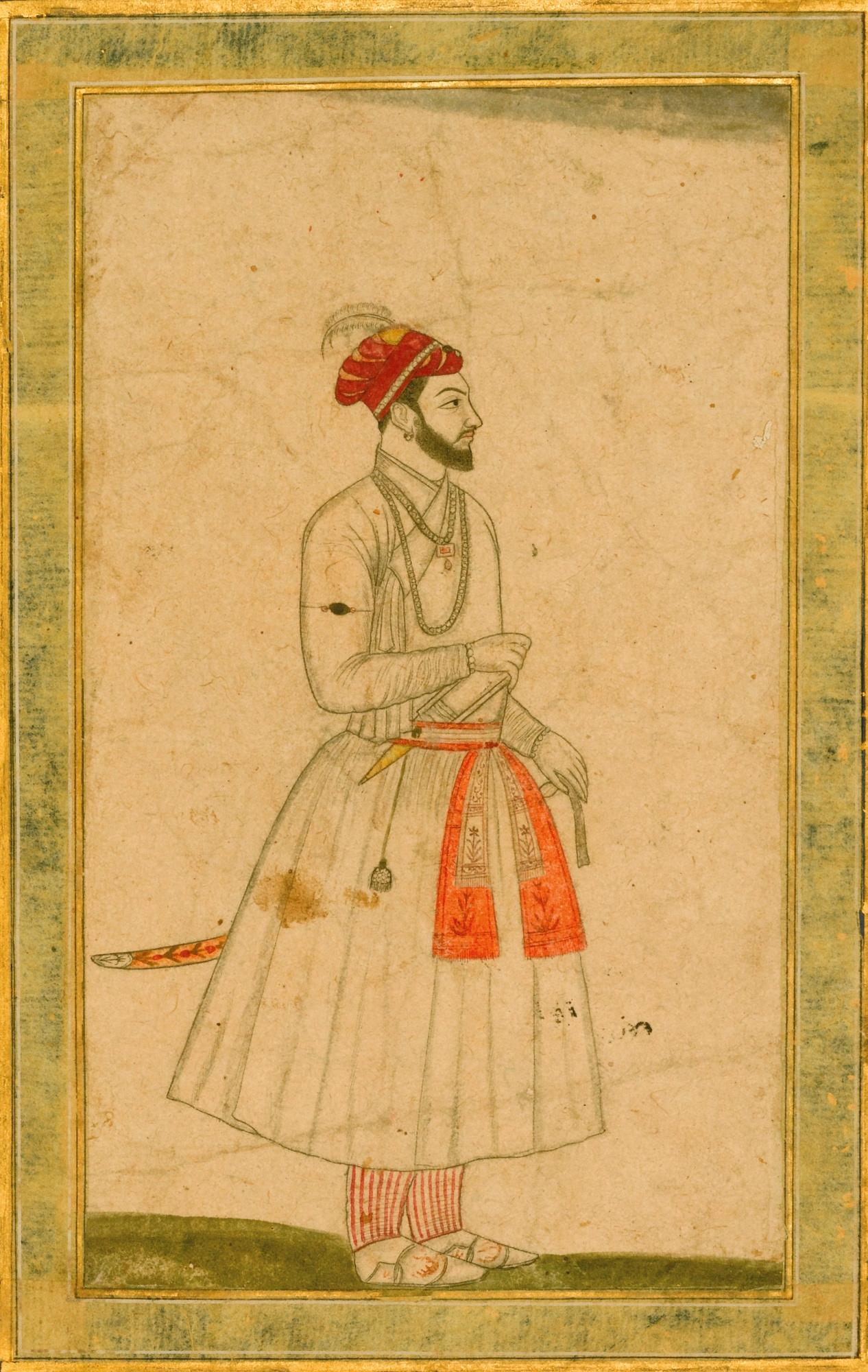 A portrait of Prince Kam Baksh, son of Aurangzeb, India, Mughal, 18th century Estimate: 500 - 800 GBP LOT SOLD. 2,750 GBP (Hammer Price with Buyer's Premium) Ink with use of colours of on paper, mounted on album page with gold-flecked blue borders, inscribed in lower border and on reverse in black ink in nasta'liq script "shabihi Shahzadeh Kam Bakhsh" drawing: 18.6 by 10.4cm. leaf: 44.3 by 28.6cm.